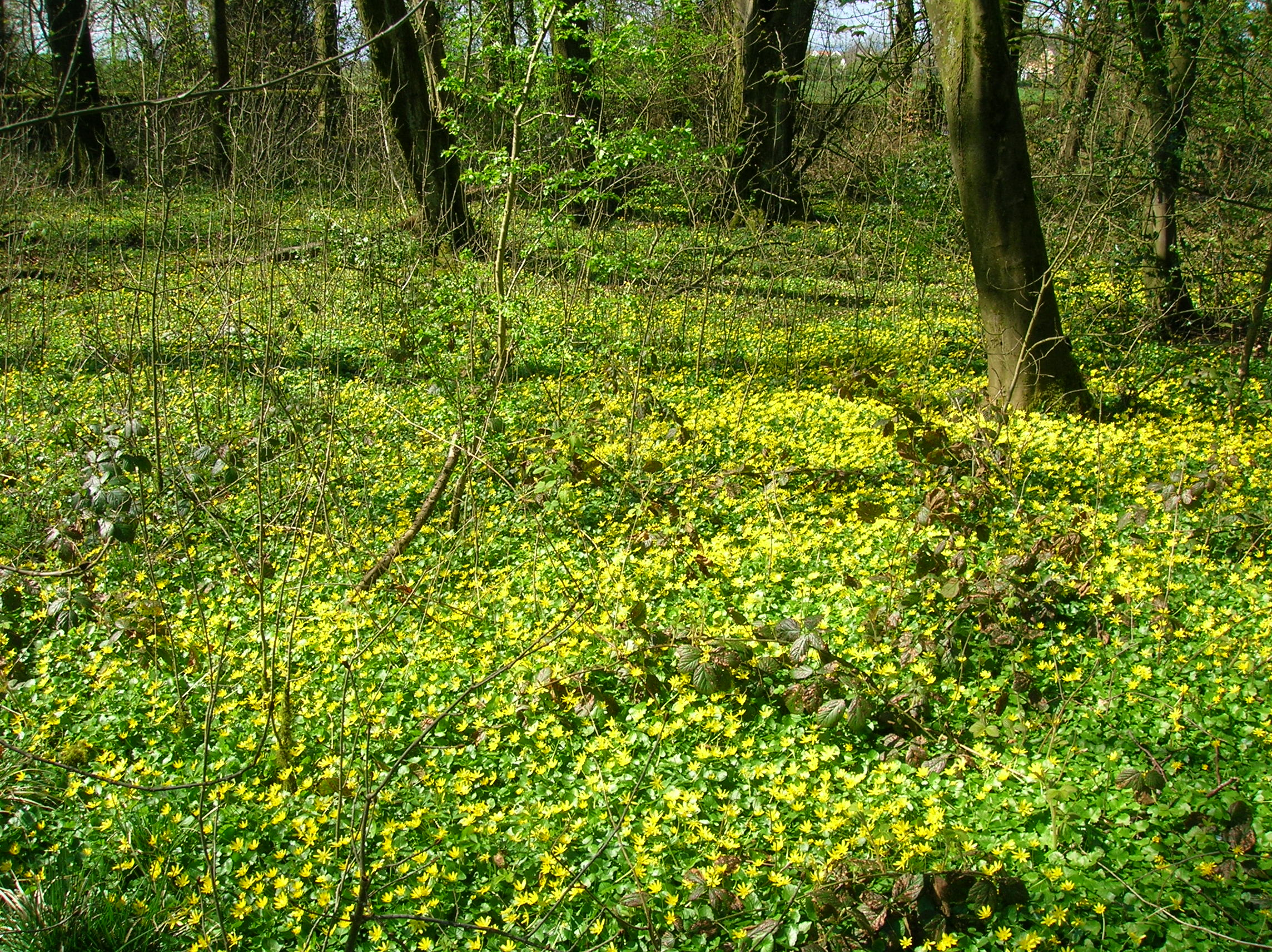 Celandine (Ficaria verna) dominated sward at Spier's School Grounds, Beith, North Ayrshire, Scotland.